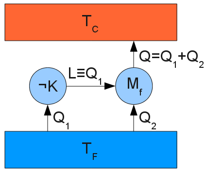 Reductio ad absurdum demonstration of the equivalence between Clausius and Kelvin statements (Second law of thermodynamics)